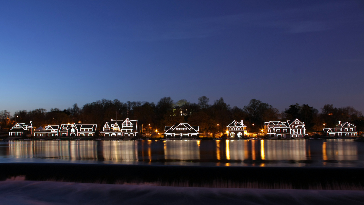 Boathouse Row on the Schuylkill River, Philadelphia, Pennsylvania, USA